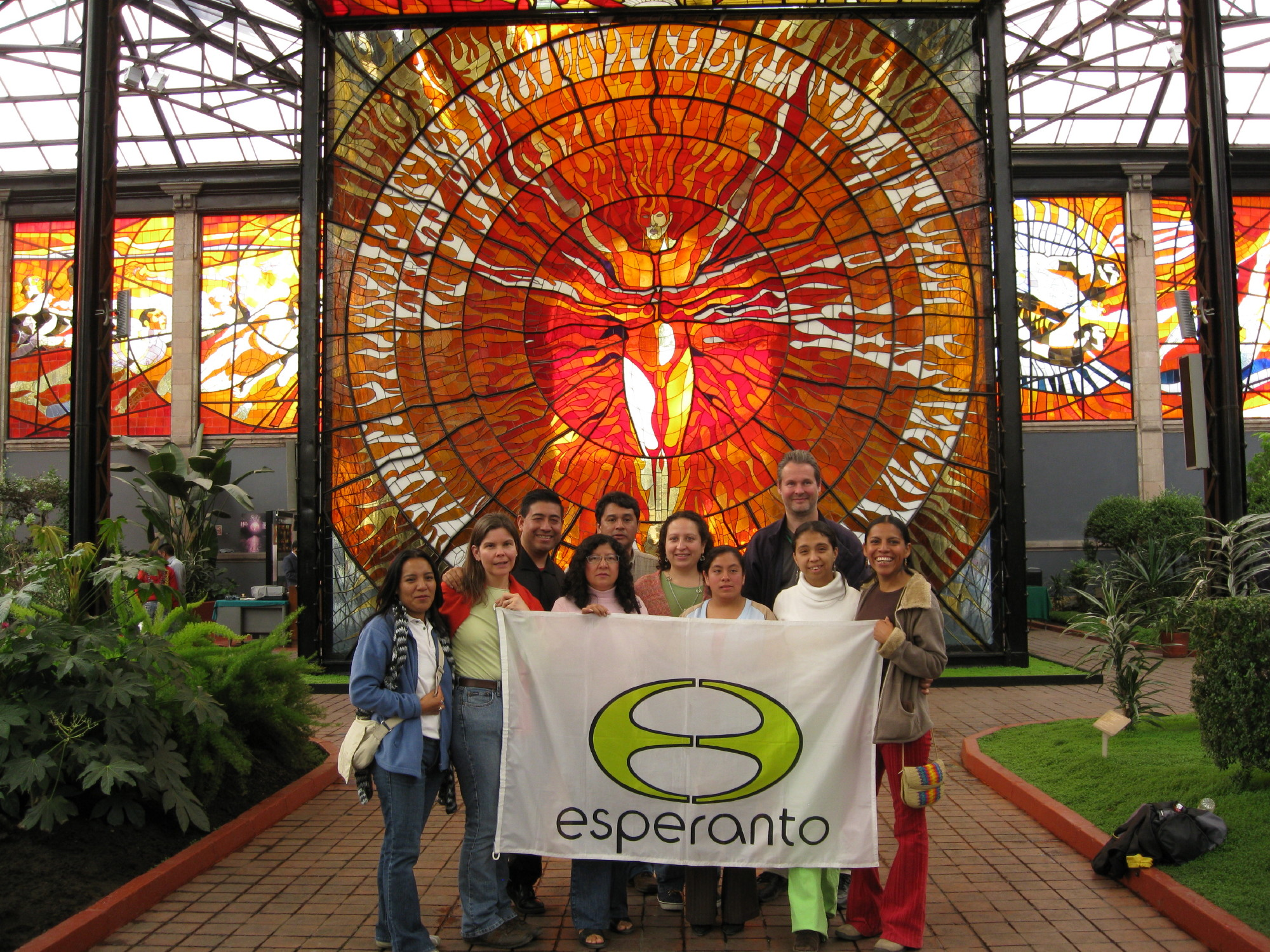 The foto shows a Esperanto-group at excursion from 29th of november 2009 to the Cosmovitral in front of the man of the sun